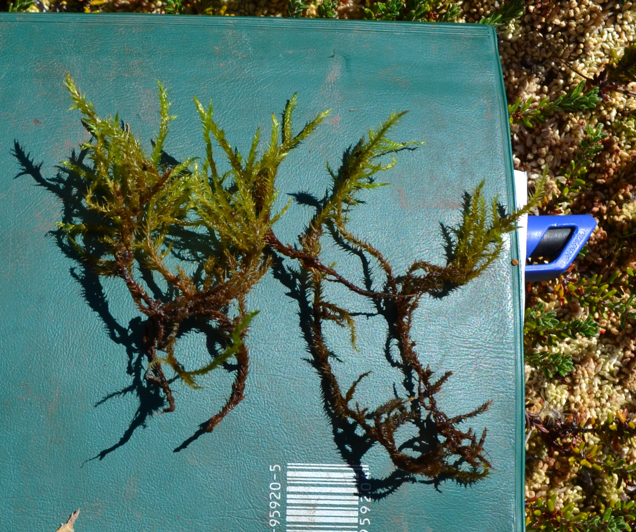 Acrocladium auriculatum in a terrestrialized peatland of Villa O'Higgins-Aysén, Chile (By Carolina Rodriguez Martínez)